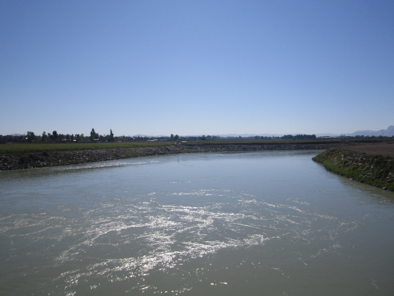 Ceyhan River in Adana